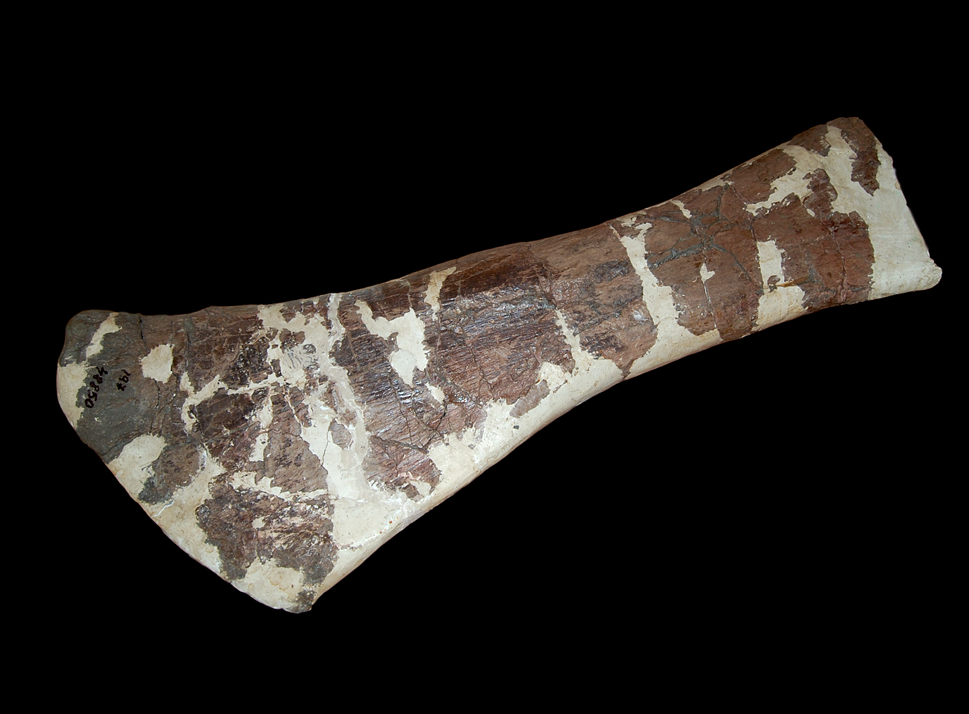 Deva natural history museum Maastrichtian, Hateg basin, Romania